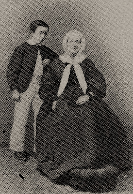 Photograph of Hearn, circa 1858, with his great aunt, Sarah Brenane, from 'Concerning Lafcadio Hearn' -- a book by George M. Gould, published in 1908: page 148